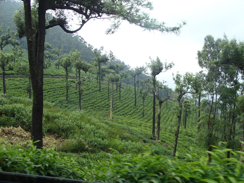 a picture of one of the tea estate in manjolai